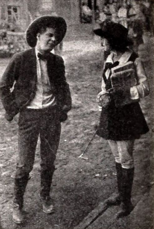 Still from the American western film Headin' West (1922) with Hoot Gibson, on page 70 of the February 25, 1922 Exhibitors Herald.